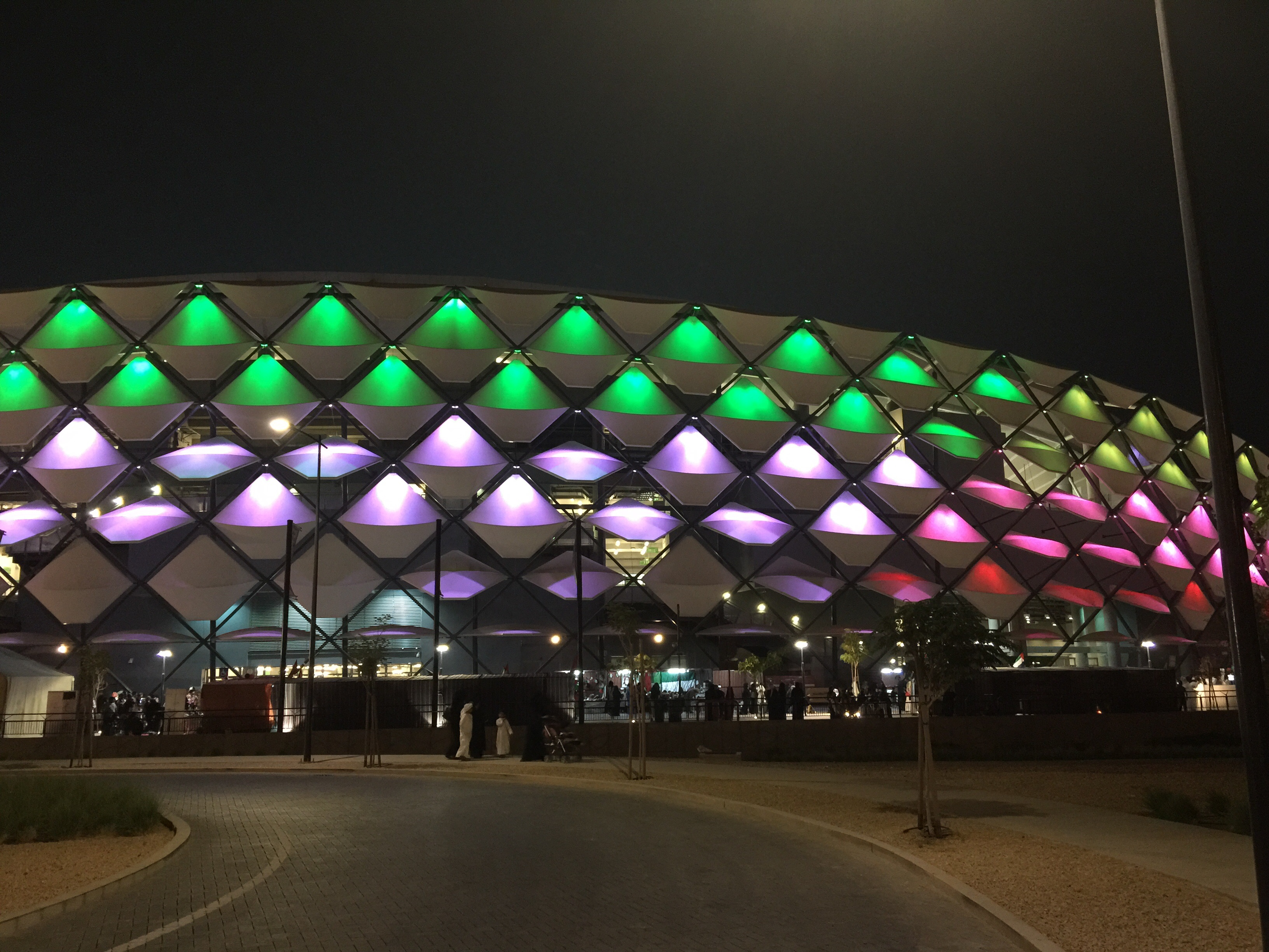 Hazza Bin Zayed Stadium at night showing the colors of the flag